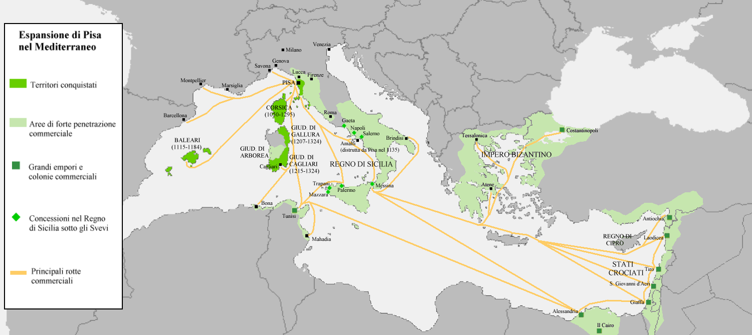 The commercial and territorial expansion of the Republic of Pisa. It includes trade routes, colonies, and warehouses (early 12th century)